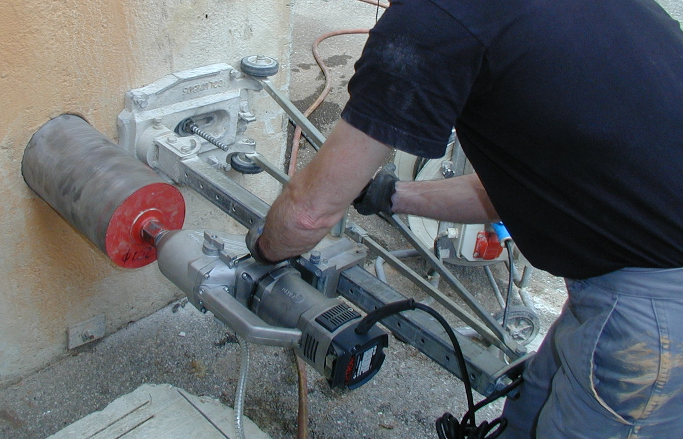 Rig mounted core drill in action